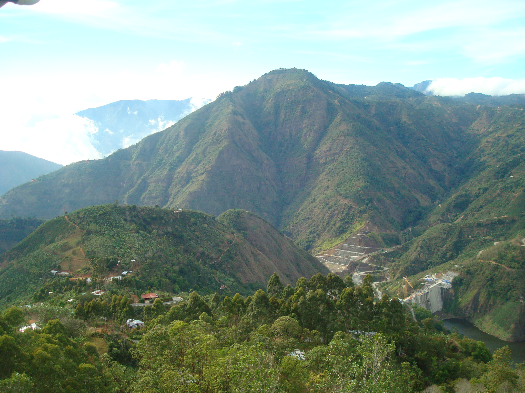 Pirris Hydro Dam, Tarrazu Costa Rica